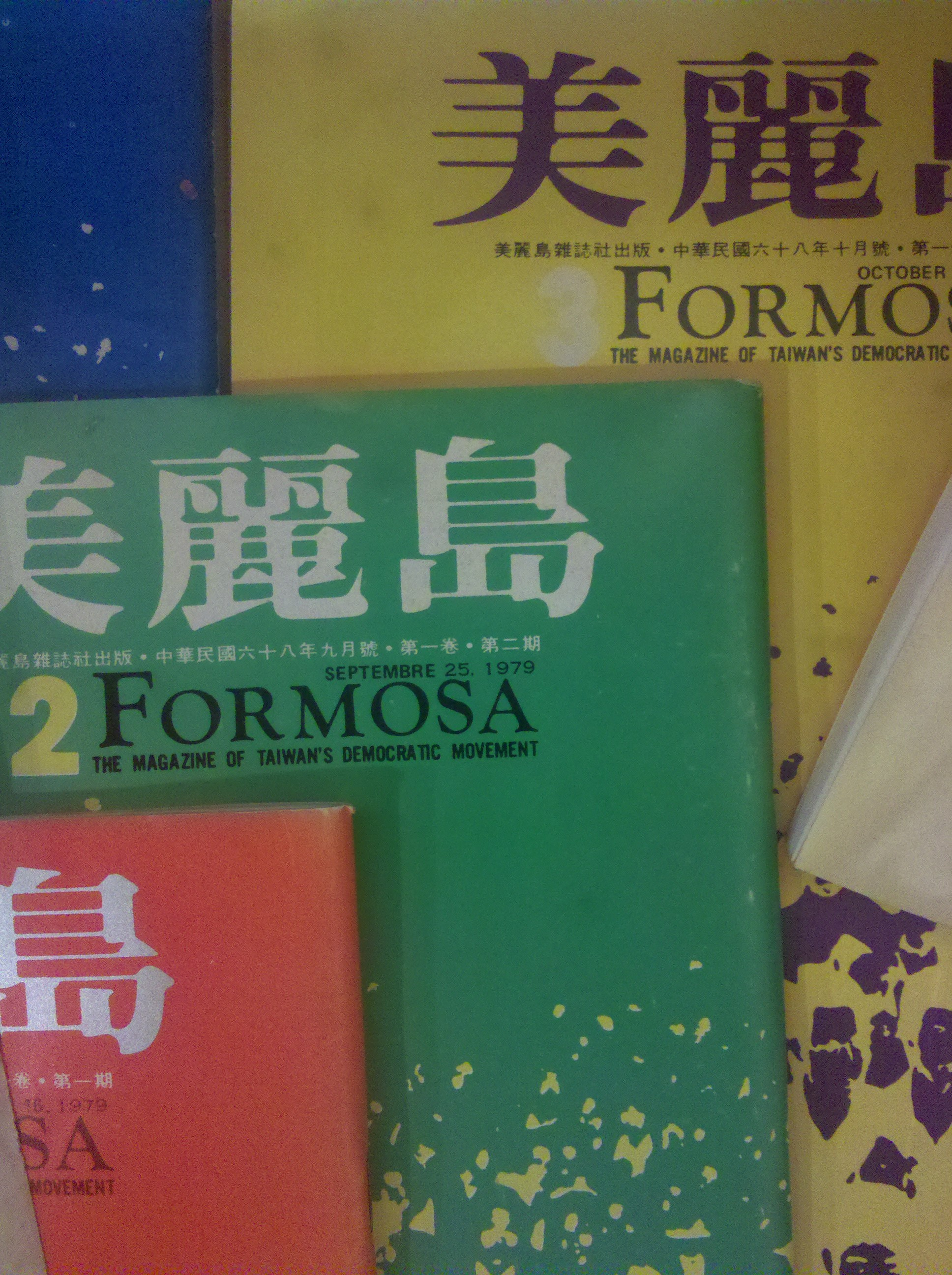 Since August 1979 in TAIWAN